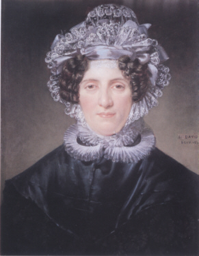 Pauline Panckoucke, wife of Dominique-Vincent Ramel